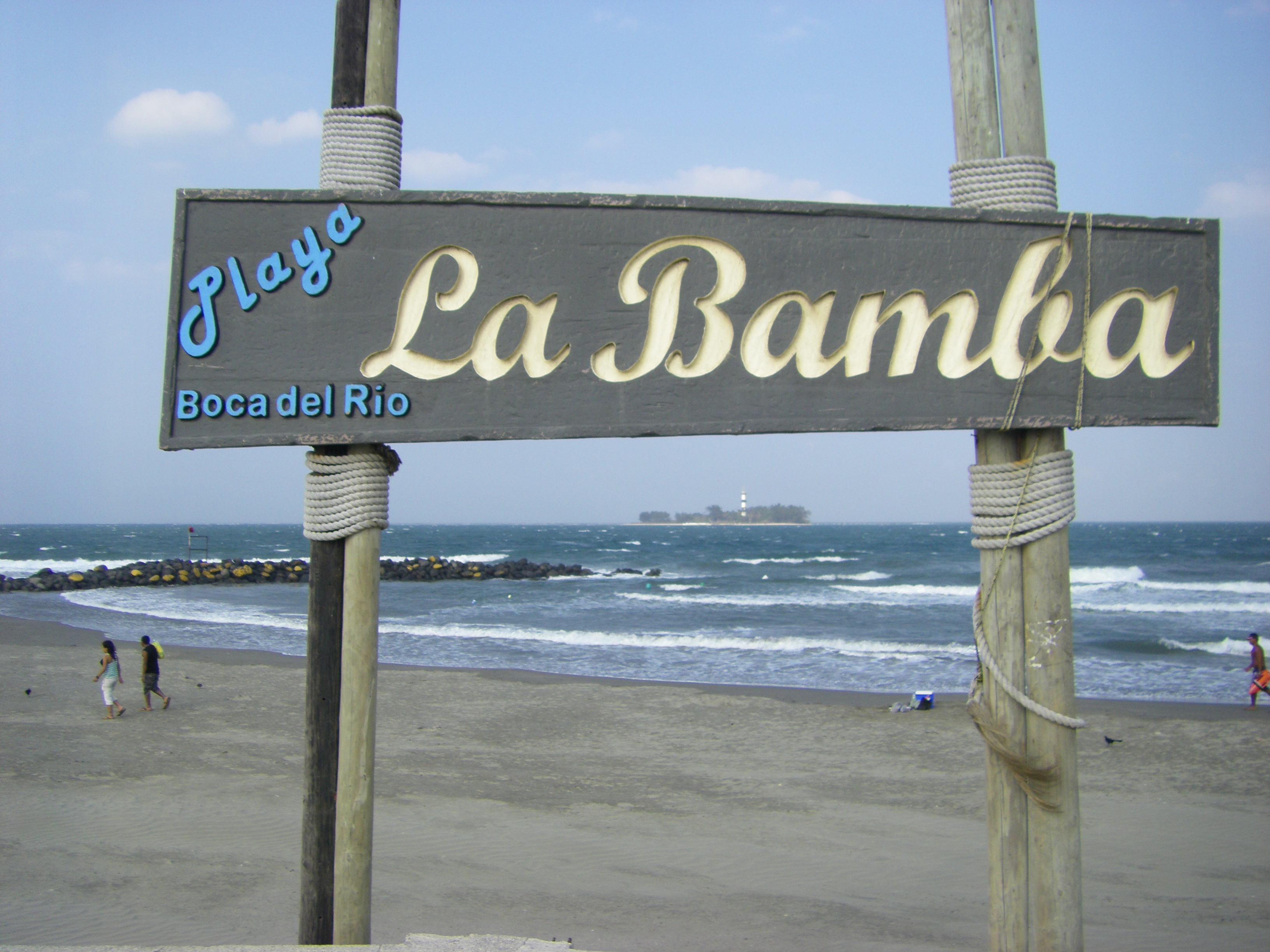 La Bamba Beach in Veracruz (city)